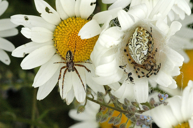 Aculepeira ceropegia couple, from Commanster, Belgian High Ardennes .